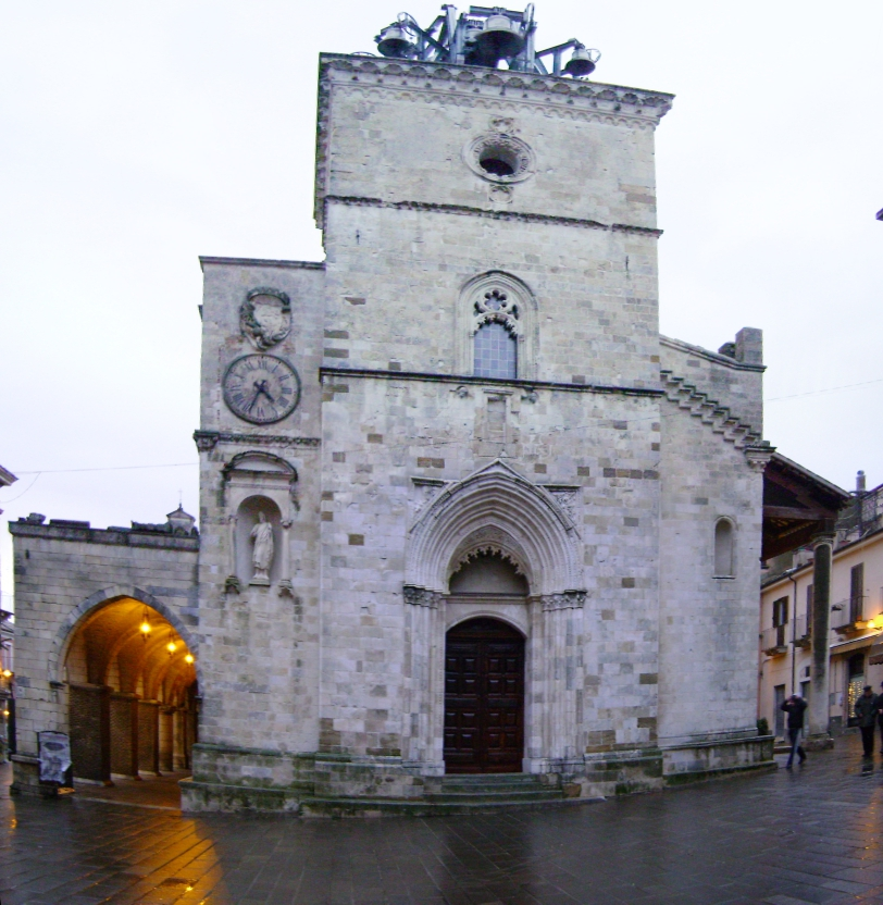 The church of Santa Maria Maggiore in Guardiagrele, in the province of Chieti, Abruzzo